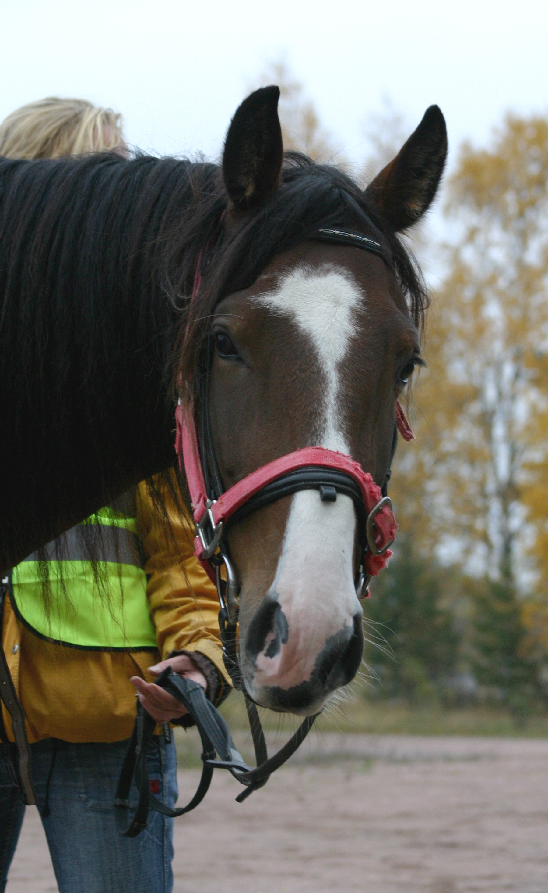 A curious peer at the photographer